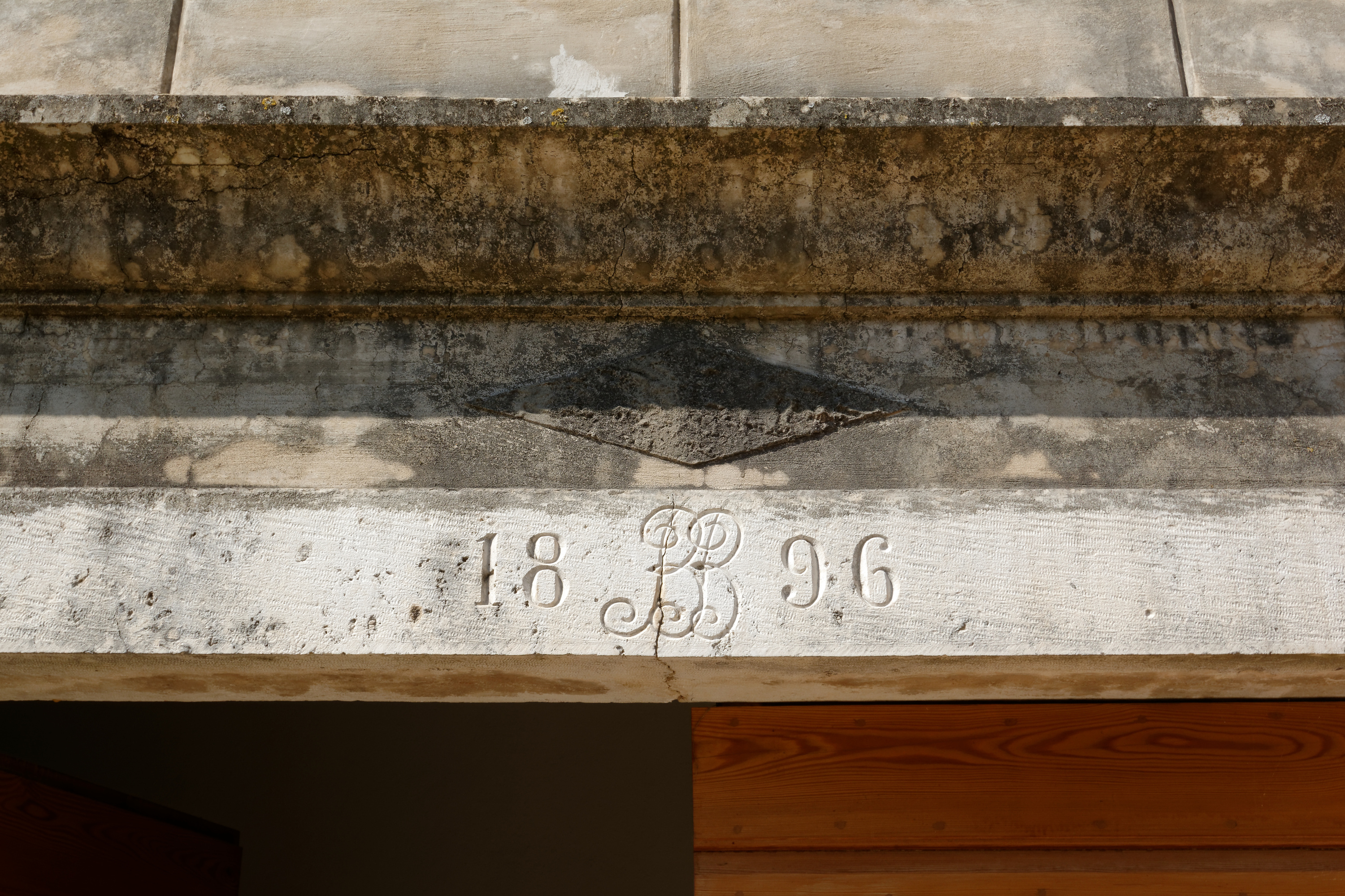 Biankini Palace, Stari Grad.